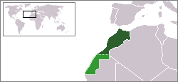 Morocco and the Moroccan-claimed Western Sahara.